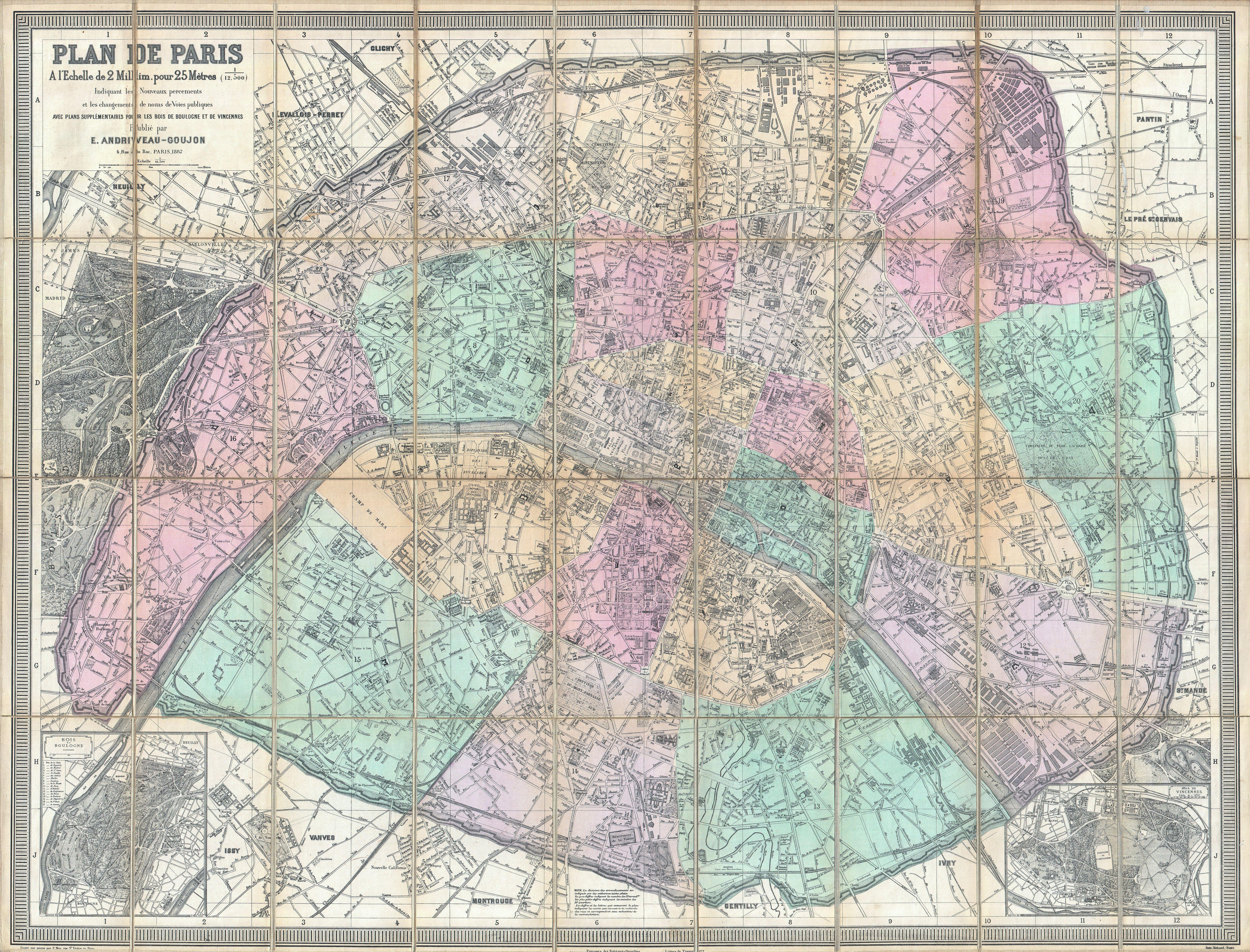 A stunningly executed 1882 large format folding pocket map of Paris, France by E. Andriveau-Goujon. Focuses on the old walled center of Paris from Neuilly in the northwest to Pantin in the northeast, Issy in the southwest, and Ivry in the southeast. Inset maps detail the gardens of Bois de Boulogne and Bois de Vincennes. Offers extraordinary detail of the city on a scale of 1:12,500. Details individual buildings, streets, monuments, gardens and palaces. Shows exceptionally remarkable attention to detail in the public gardens where subtle expressions of landscape design are apparent. Predates the Eiffel tower. Color coded by arrondissement. Engraved by P. Mea of 70 Rue St. Victor, Paris for E. Andriveau-Goujon of 4 Rue du Bac, Paris, 1882.